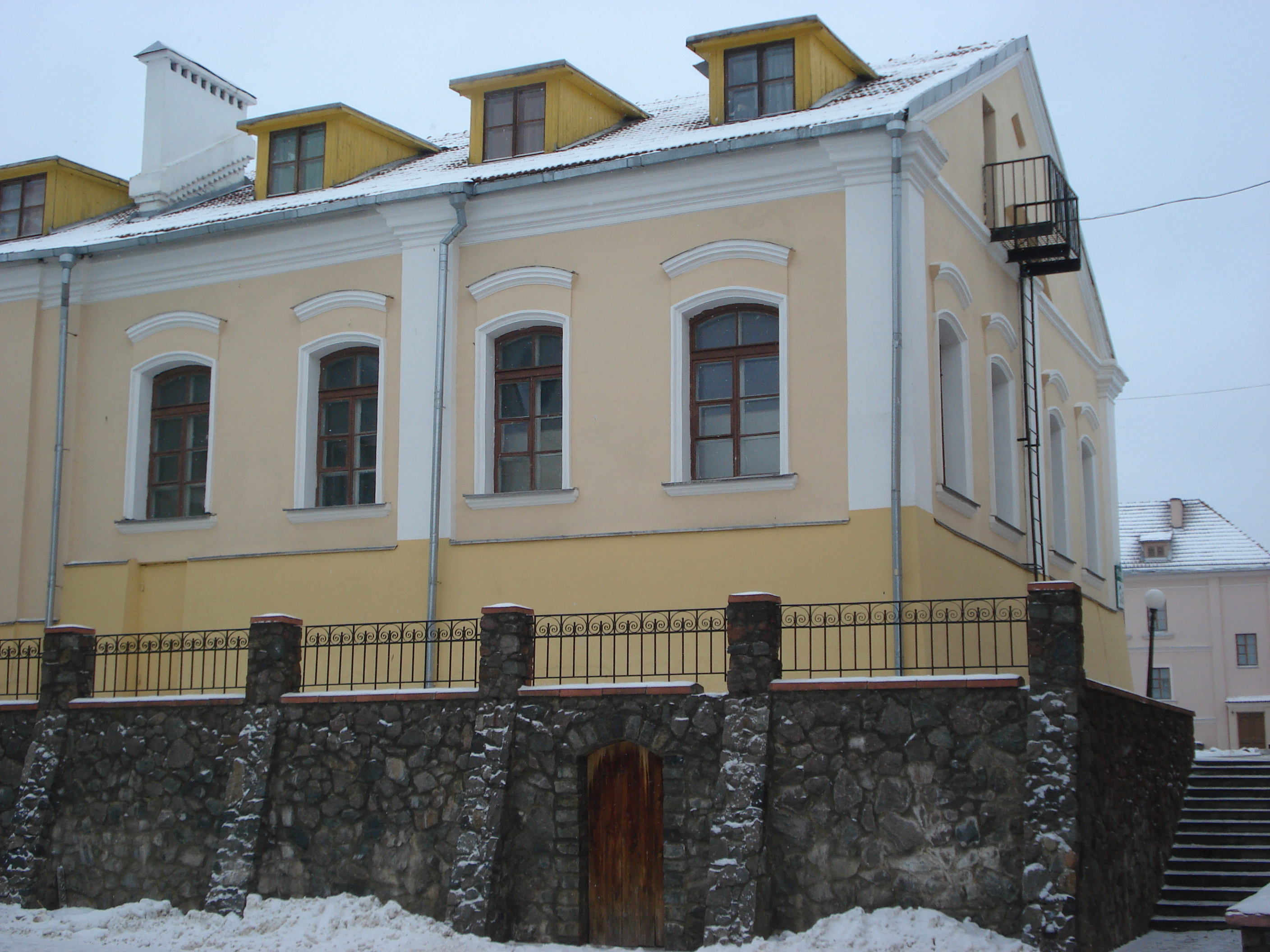 Former Synagogue